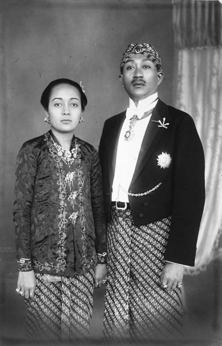 Studio portrait of Mangku Negoro VII and his wife Ratu Timur